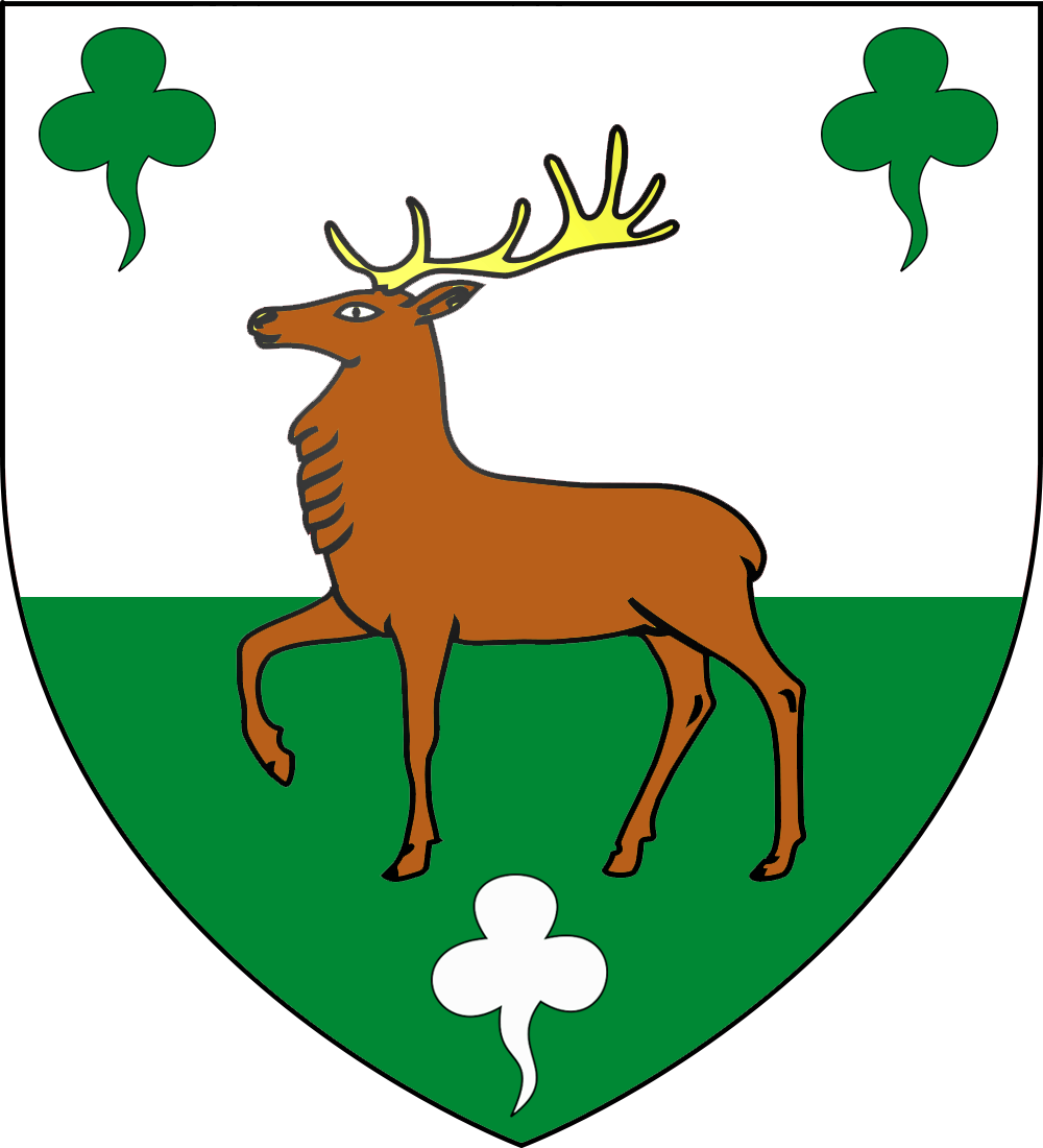 Coat of arms of the O'Connell.